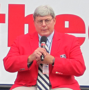 Football legend John Hannah speaks at the Patriots Hall of Fame induction ceremony for Sam "Bam" Cunningham.